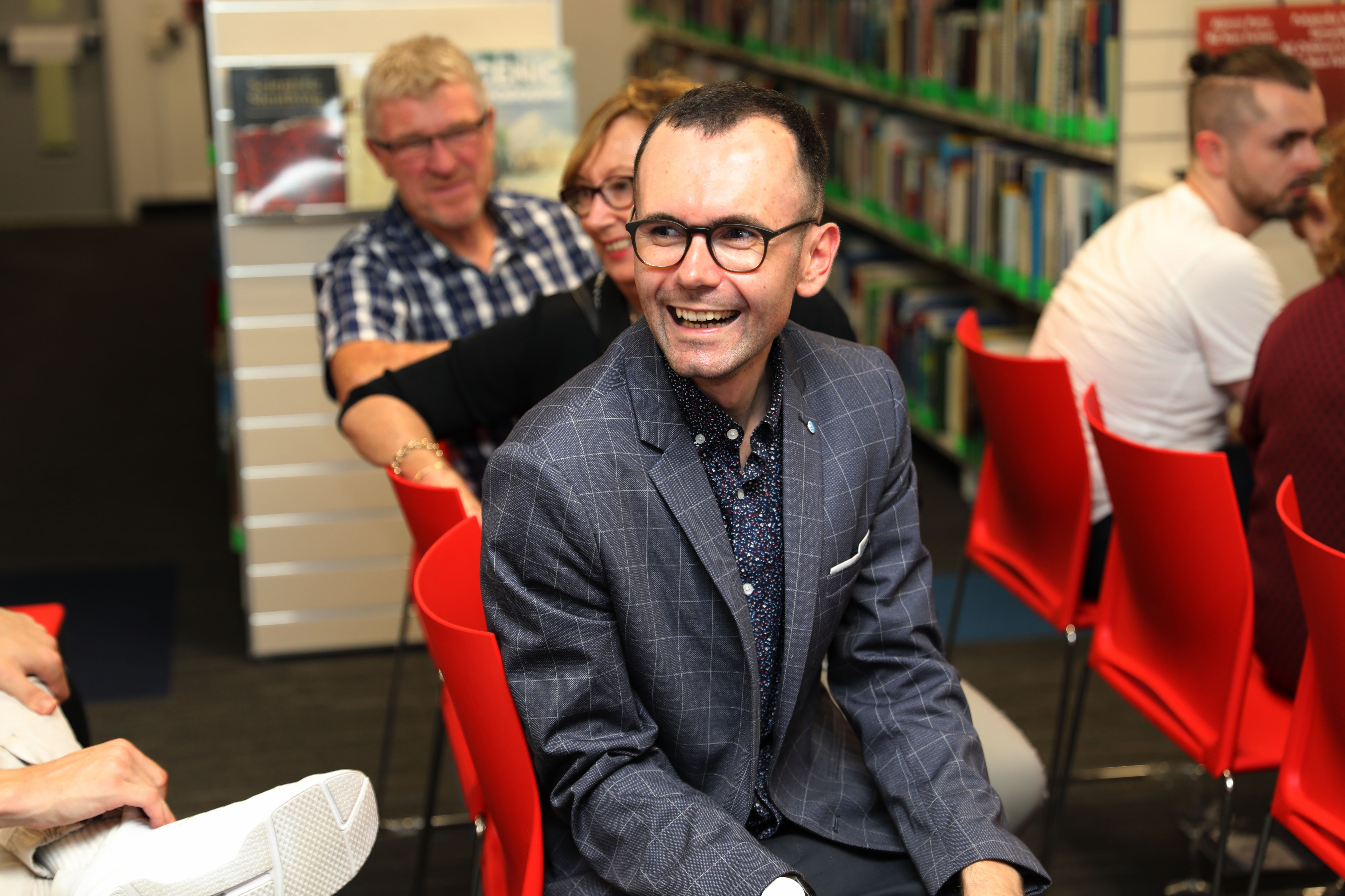 Jamie Trower at the launch of A Sign of Light on the 28th of November, 2018.